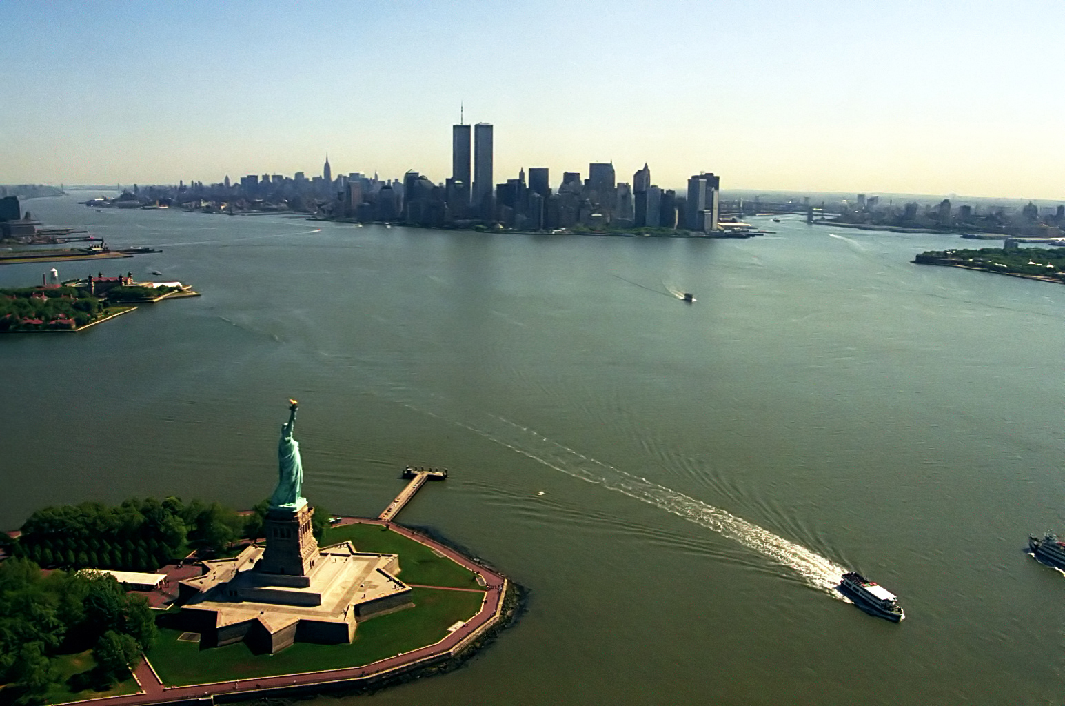 View of Manhattan from a helicopter, flying over Upper New York Bay. The towers destroyed in the September 11 attacks can also be seen on the island of Manhattan.